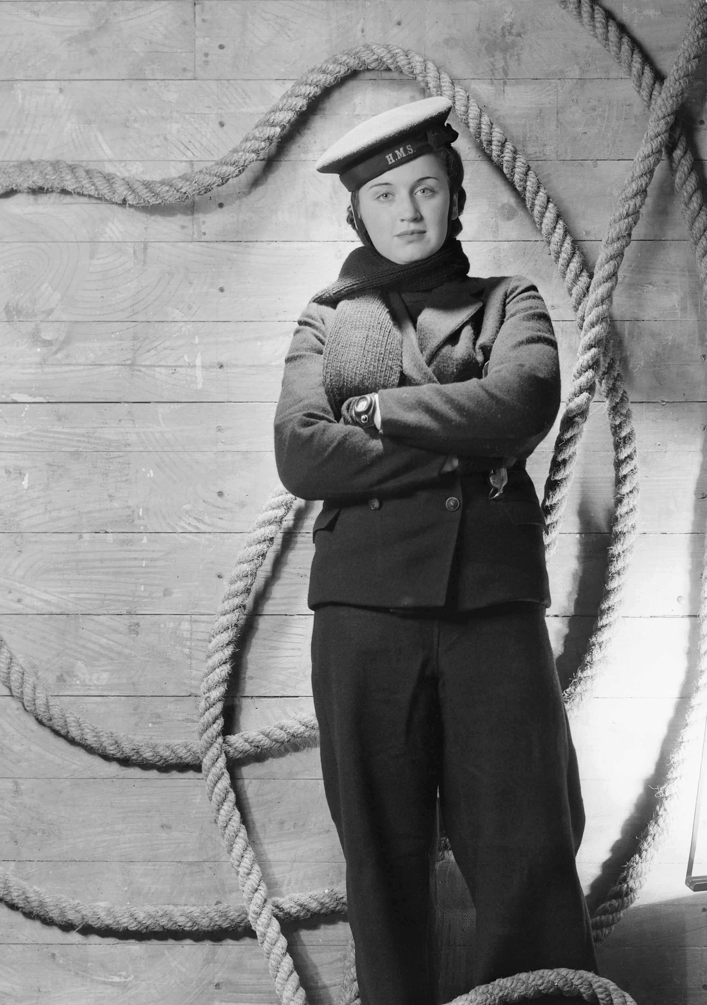 Uniforms of the Women's Royal Navy Service. November 1942, Admiralty. Wren rating dressed for the outdoors.